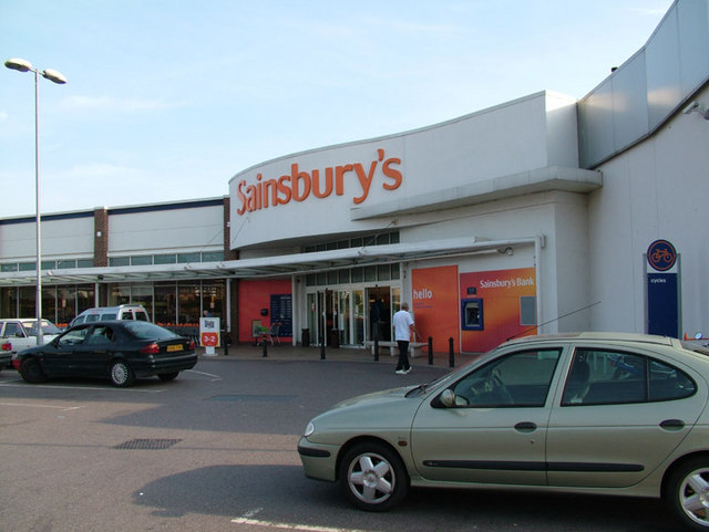 Sainsbury's, Dartford. One of the main supermarkets in Dartford is Sainsbury's. A large car park off Instone Road makes it popular. Connecting to the Priory Centre 897157 adds to its attraction.